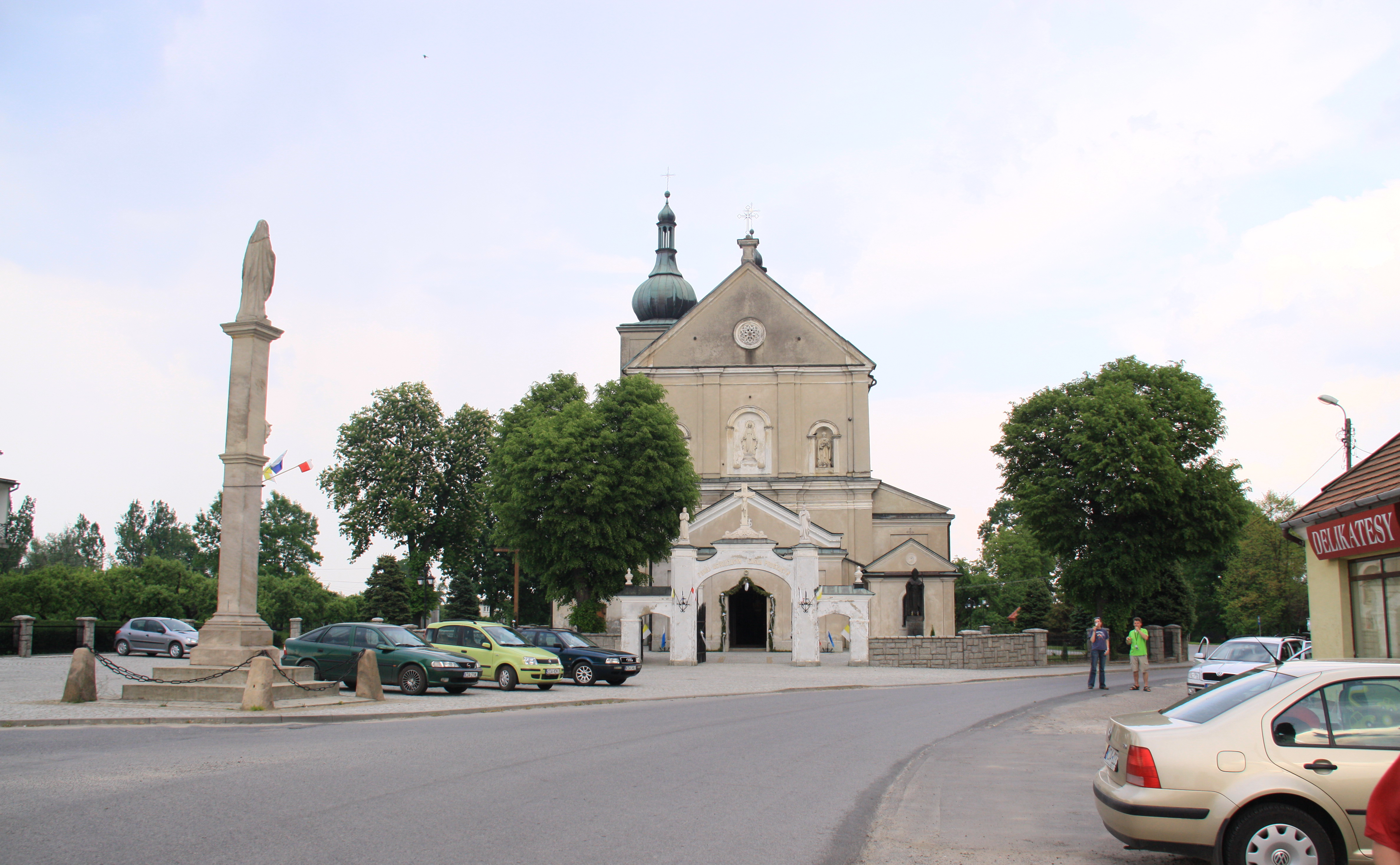 Gręboszów center - church of the Assumption of the Blessed Virgin Mary & Saint Anne statue.